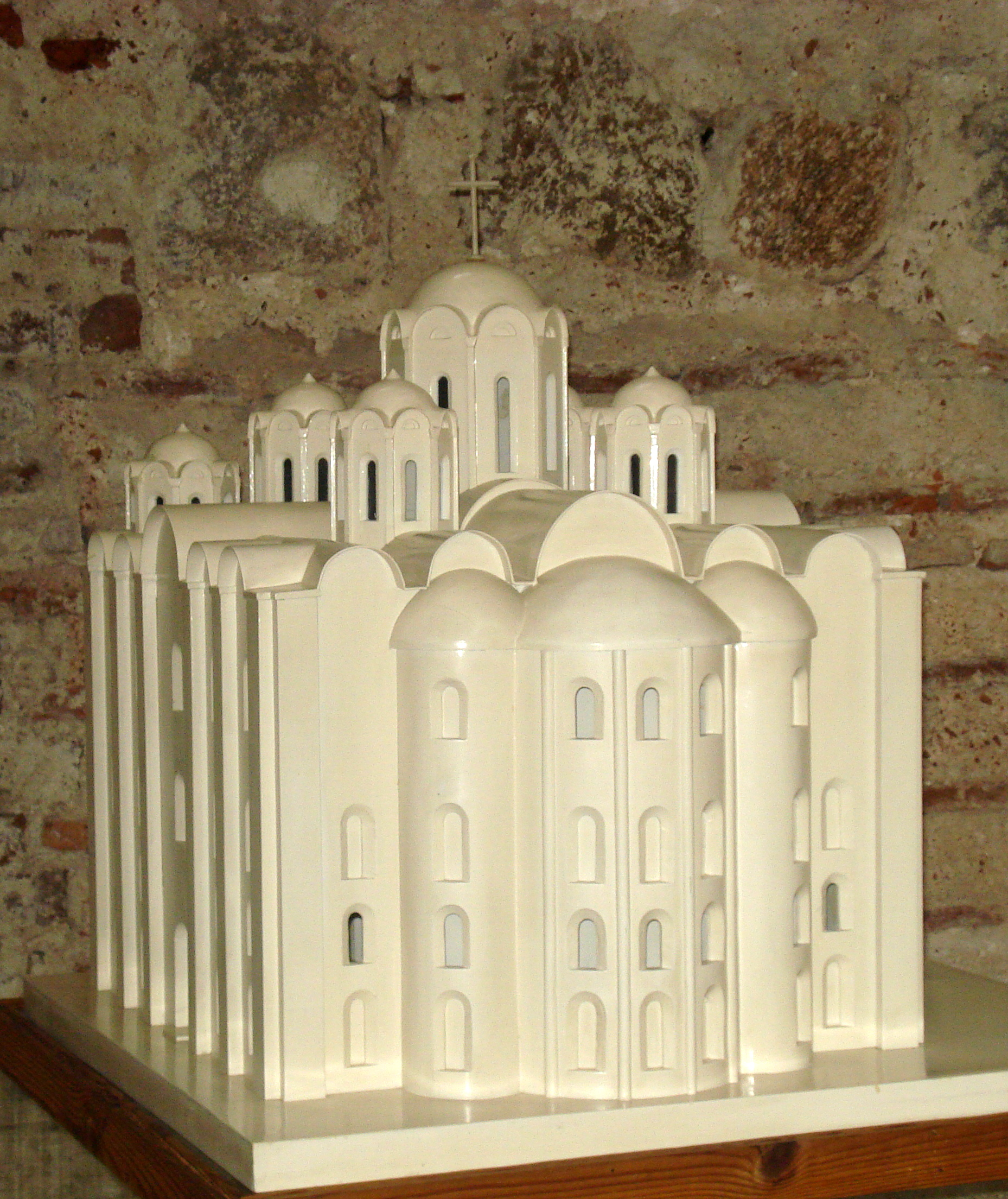 St. Sophia Cathedral in Polotsk - Miniature